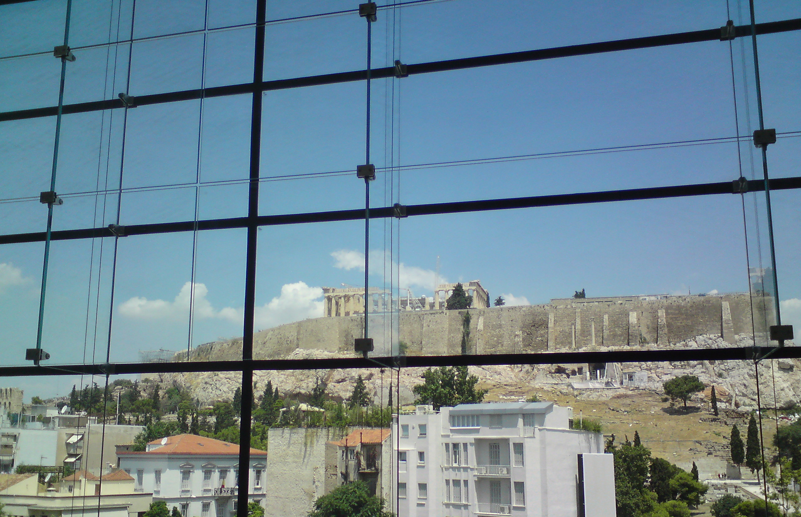 Acropolis from the interior of the New Museum of Acropolis.